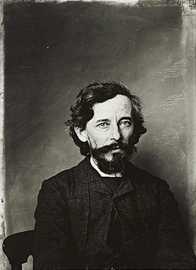 Copy print of the geltain dry plate photograph of Xanthus Smith.